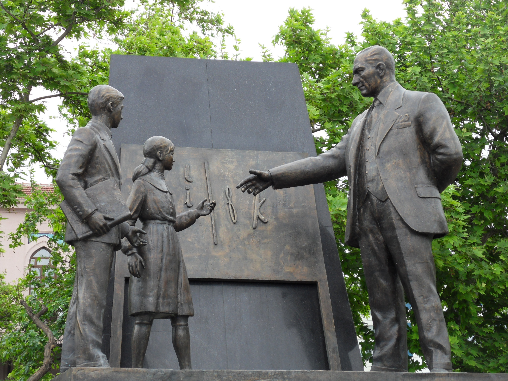 Atatürk November 1 statue in Kadıköy.